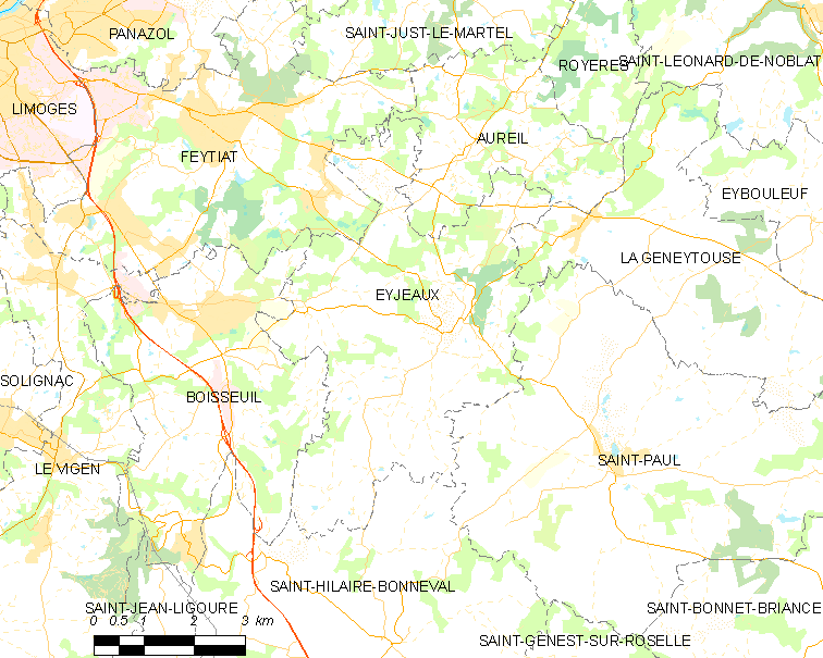 Map of French municipality Eyjeaux